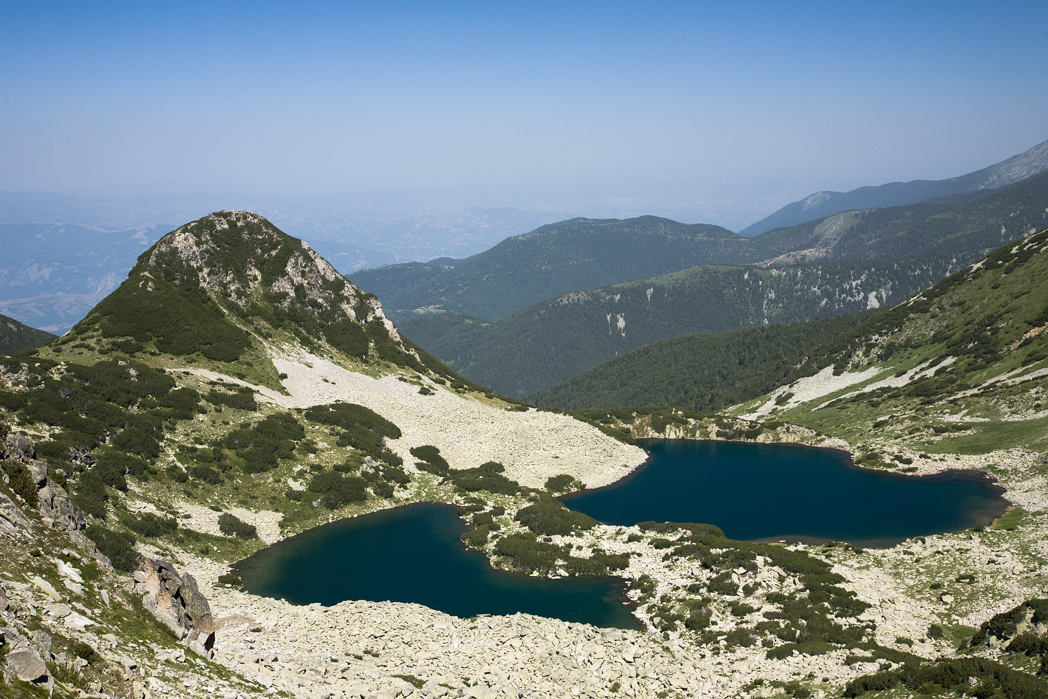 Gergiiski lakes in Pirin mountain, Bulgaria